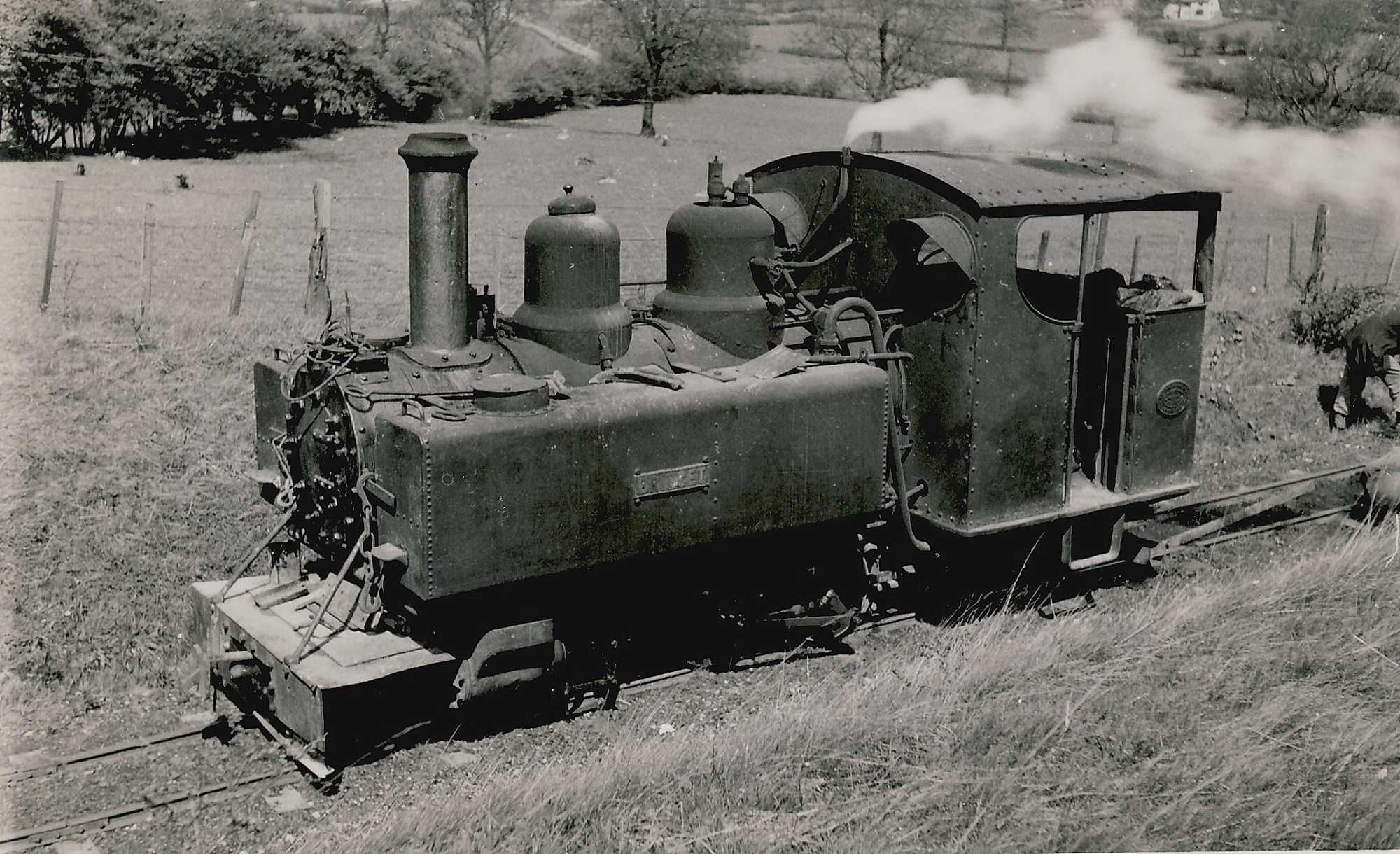 original image description on Flickr: Baldwin Class 10-12-D , August 1948 I have been informed by David form the Ashover Light Railway Society that this loco may in fact be "Joan" .It appears that Joan sprang a leak on one of her side tanks so one from "Bridget" was fitted but the nameplate was left on.